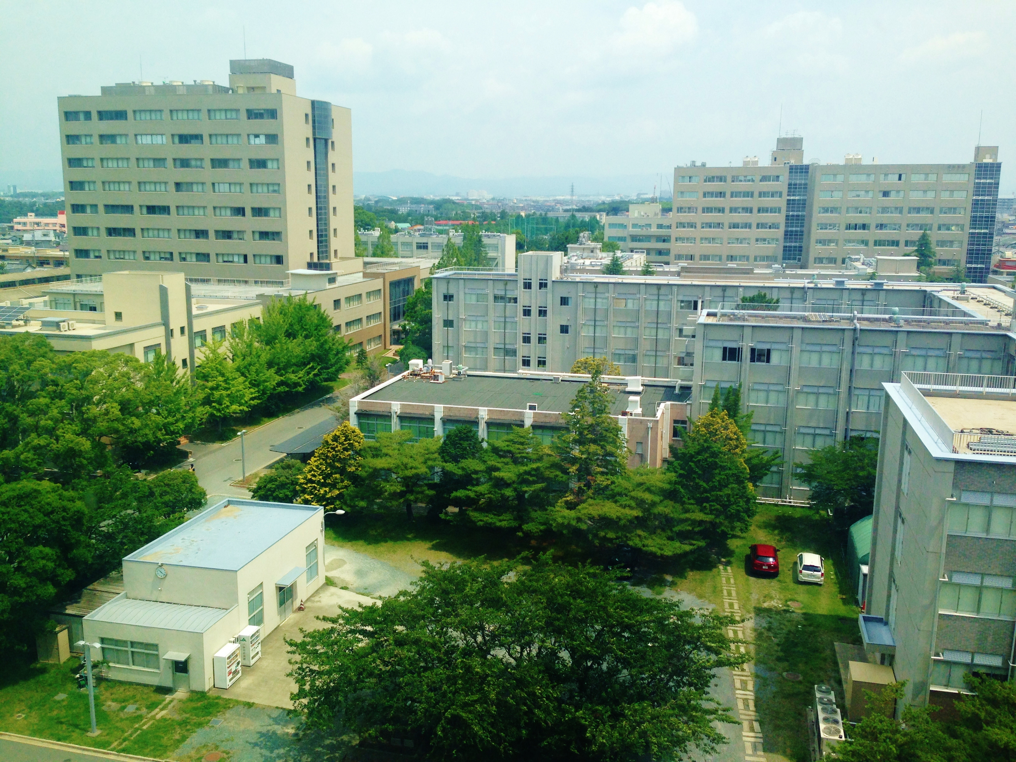 Shizuoka University